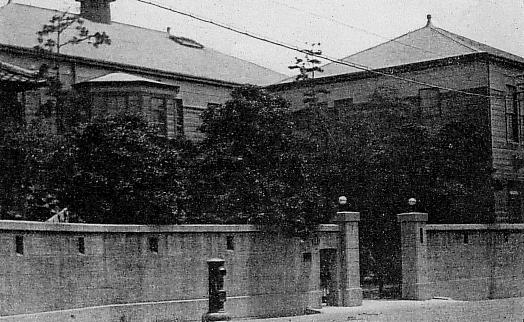 Rikken Minseito (Constitutional Democratic Party) Headquarters.